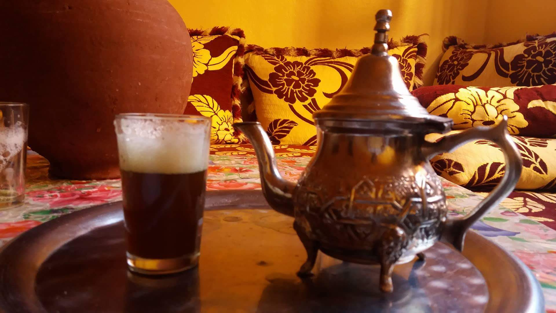 Moroccan Tea, especially in the South, is much more than a pastime.“ Tea is Morocco’s national beverage and favourite pastime. Steeped in ritual and ceremony, it is always served to a guest when in a home or shop. Even a family without electricity, furniture, or an adequate roof will likely own a silver tray and pot for serving tea.